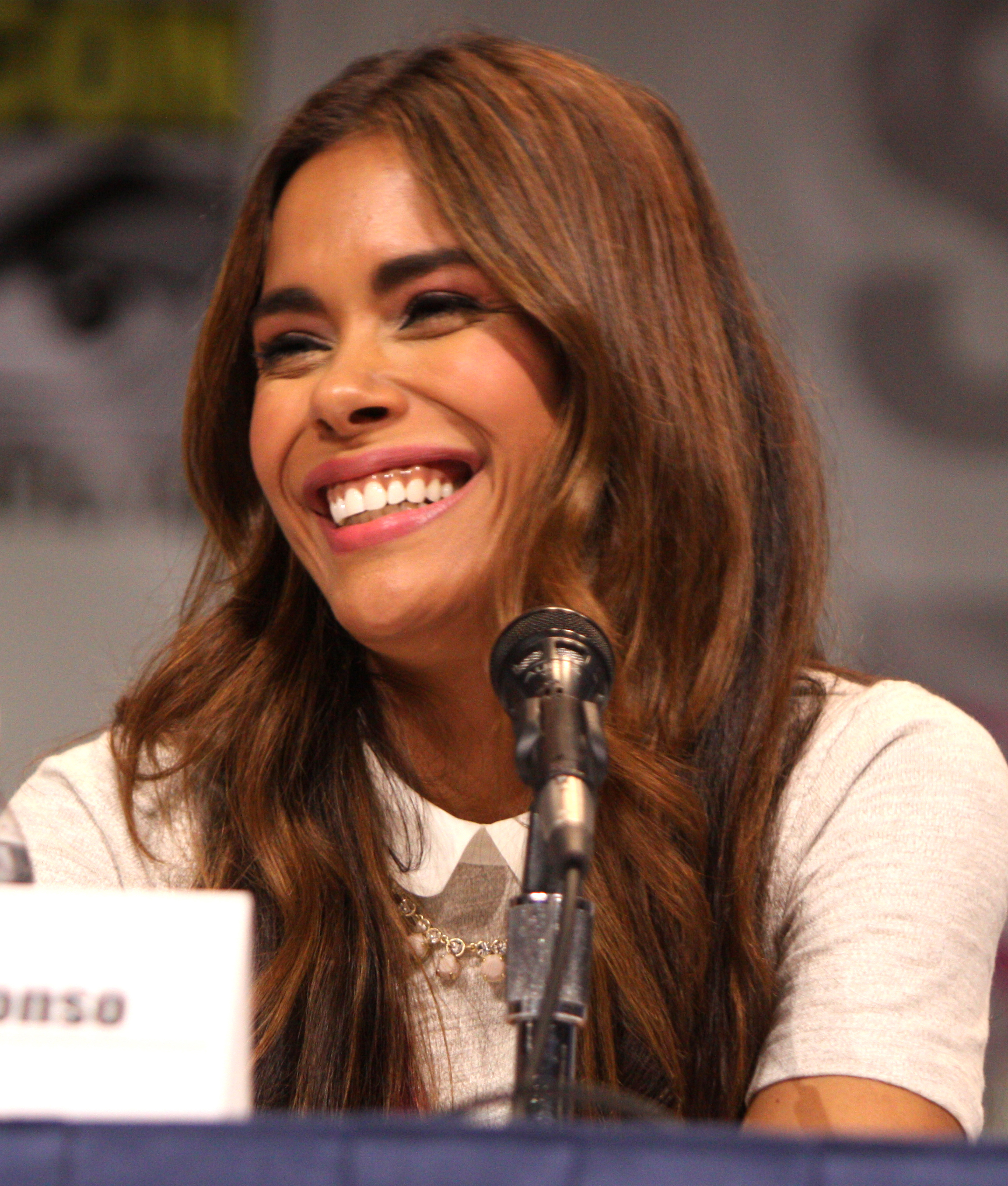 Daniella Alonso speaking at the 2013 WonderCon in Anaheim, California on March 30, 2013.